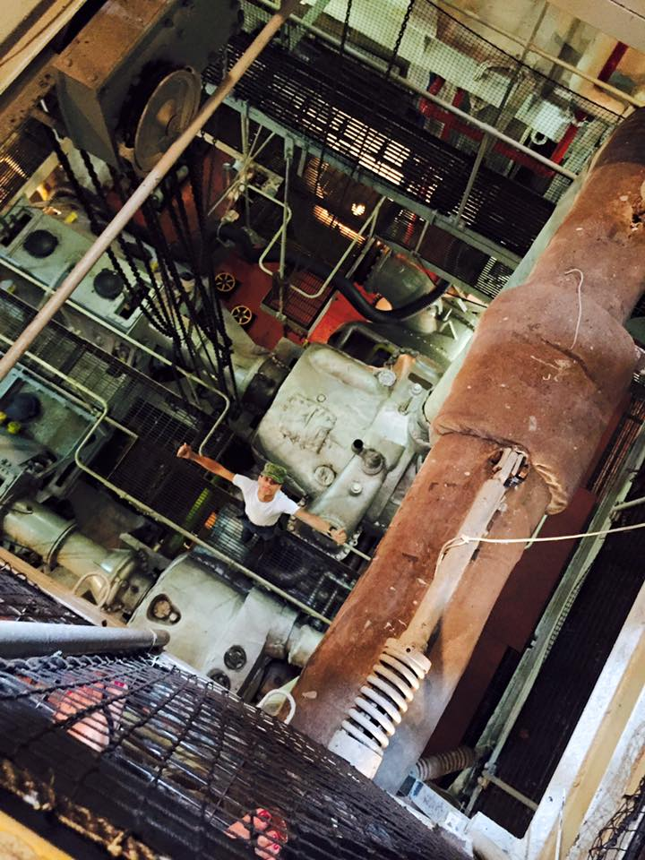 A view of the engine room